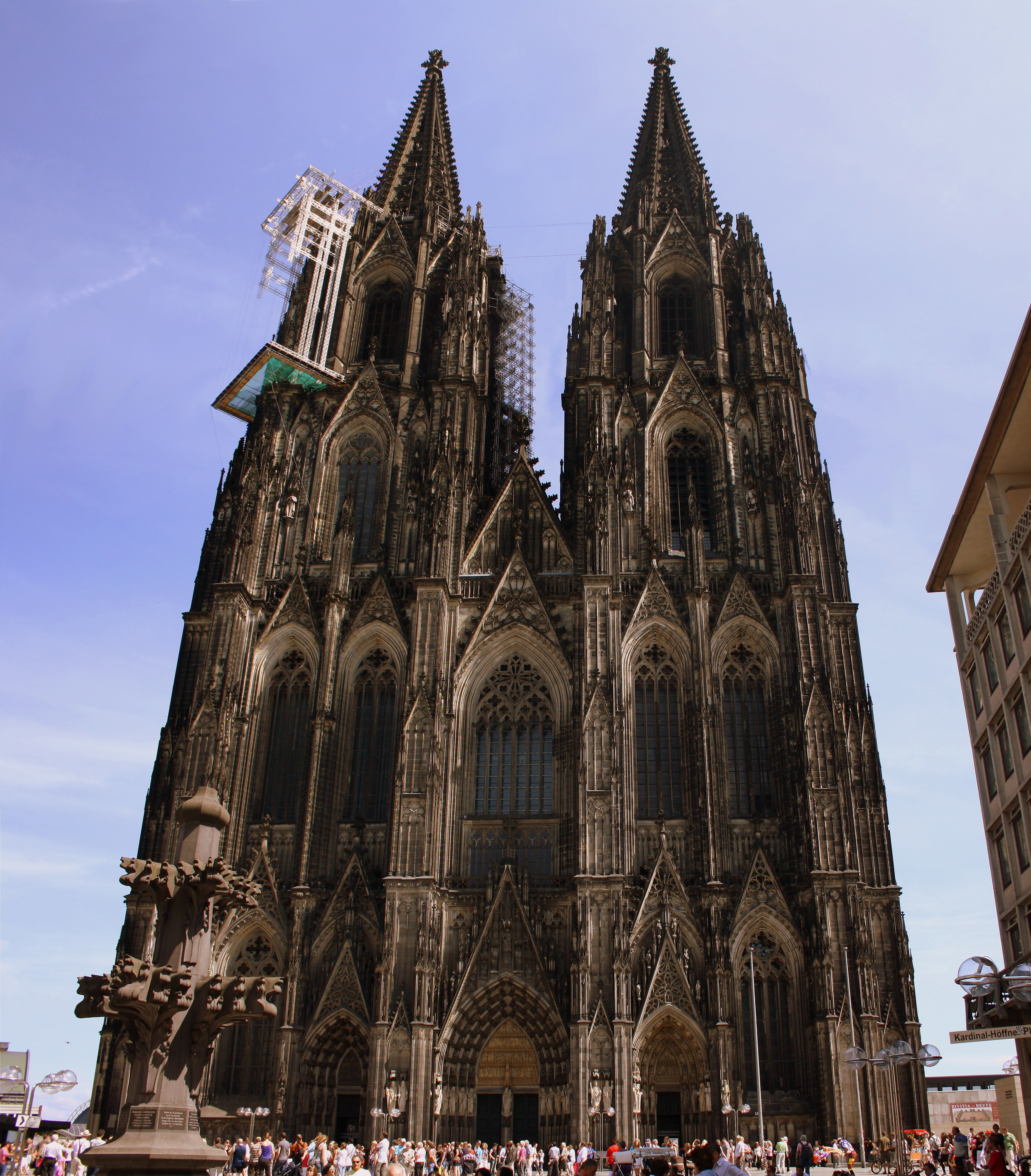 Western facade of Cologne Cathedral with main entrance.